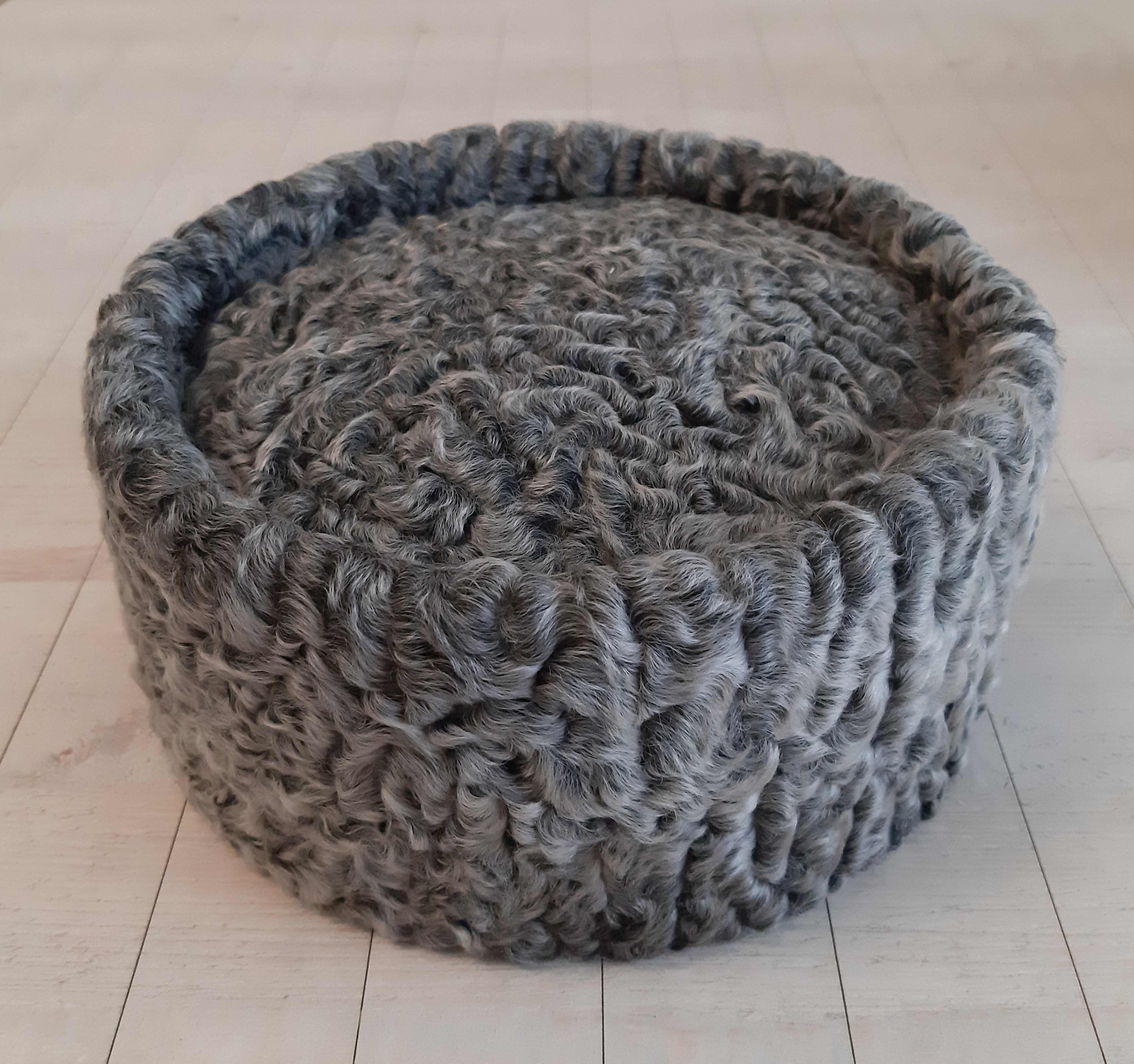 Bukhara hatAzərbaycanca: Gümüşü buxara papaq